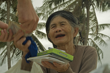 A chewing gum vendor with black-painted teeth.